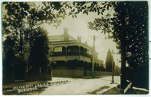 MLC School circa 1892. Miss Lester's Kent House (original building) with Schofield Hall in background. Corner of Rowley St and Park Rd, Burwood.